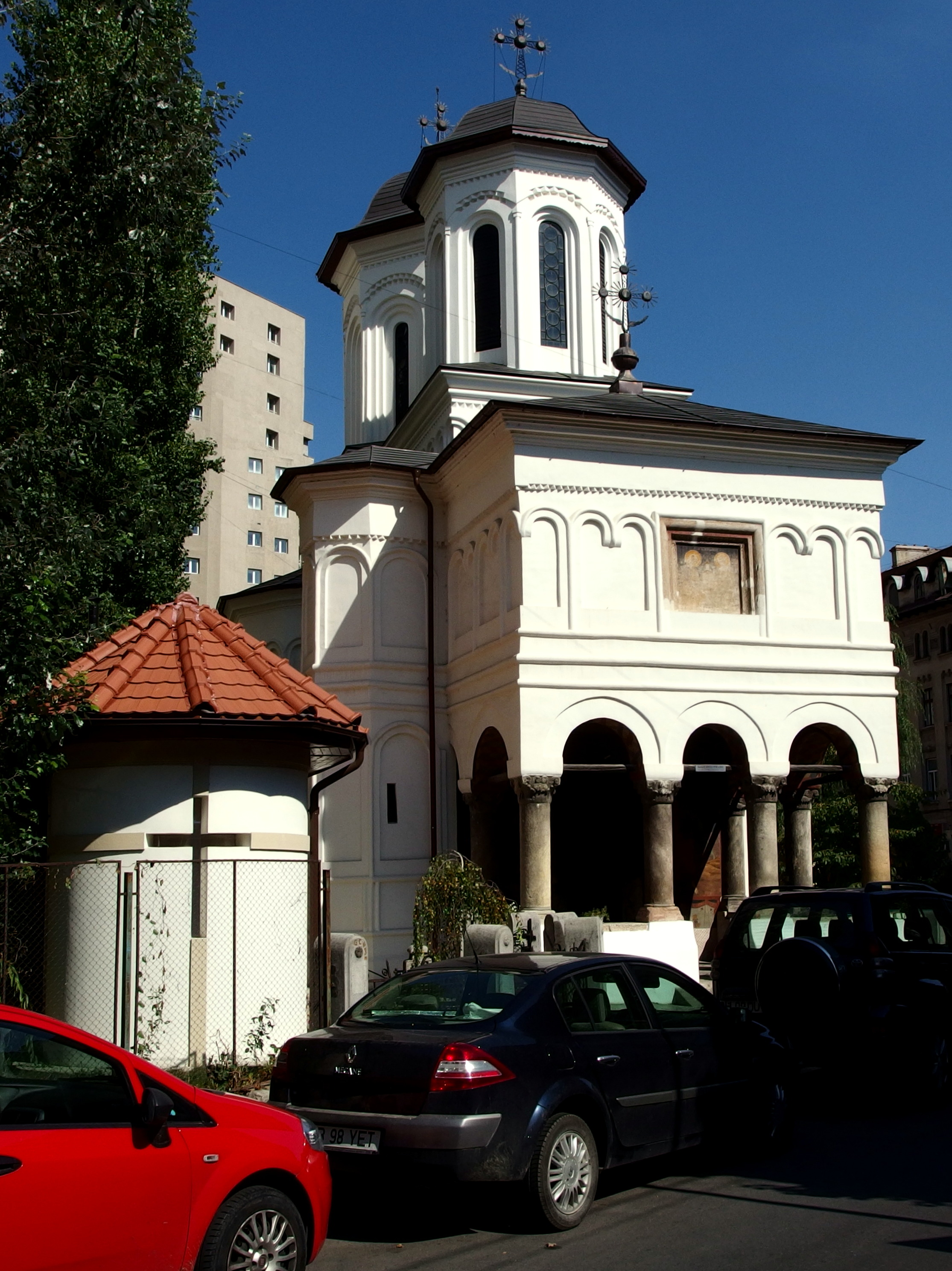 2014-08-19 in Bucharest.